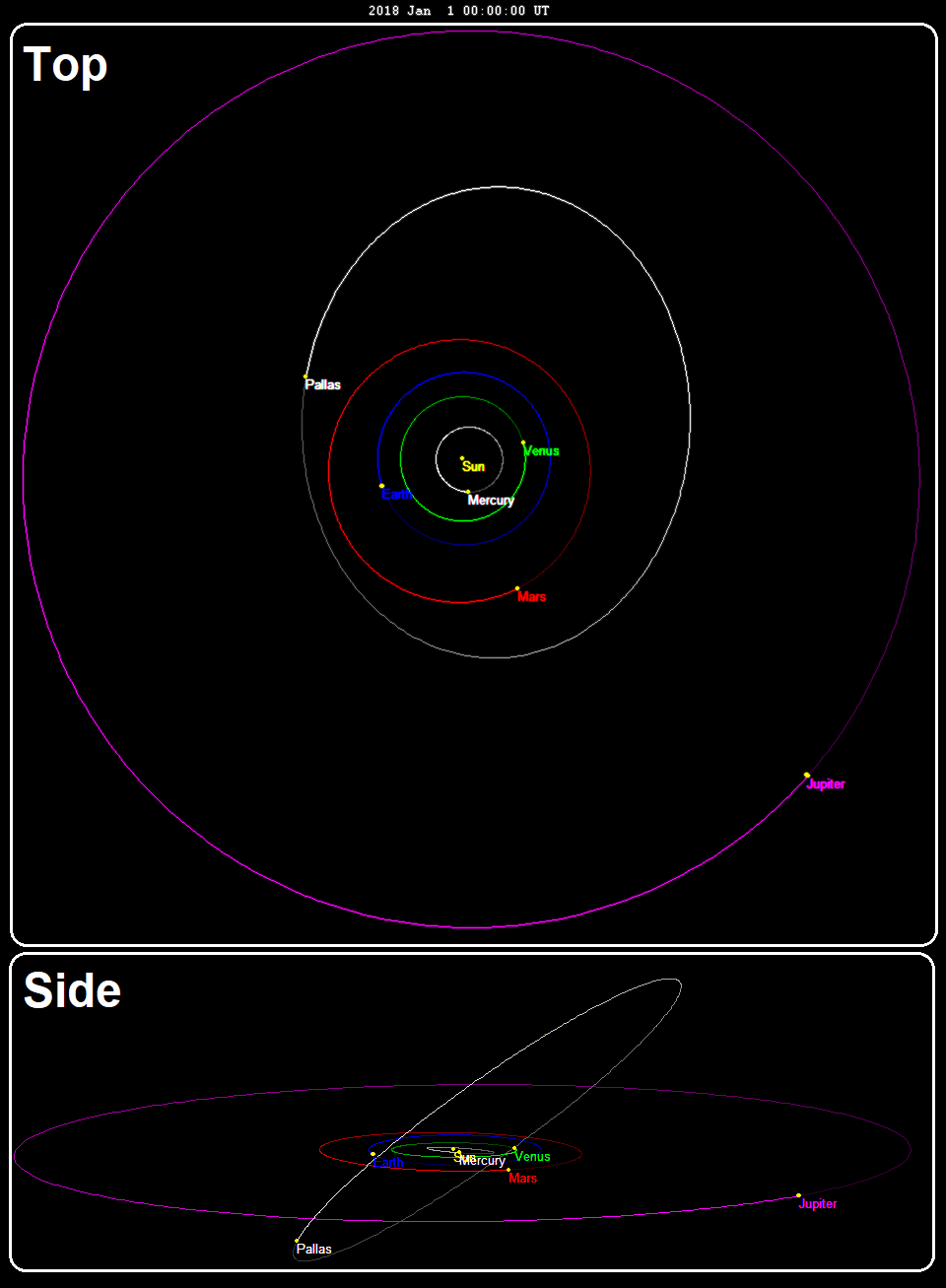 en:2 Pallas orbit with inner solar system and positions on Jan 1, 2018